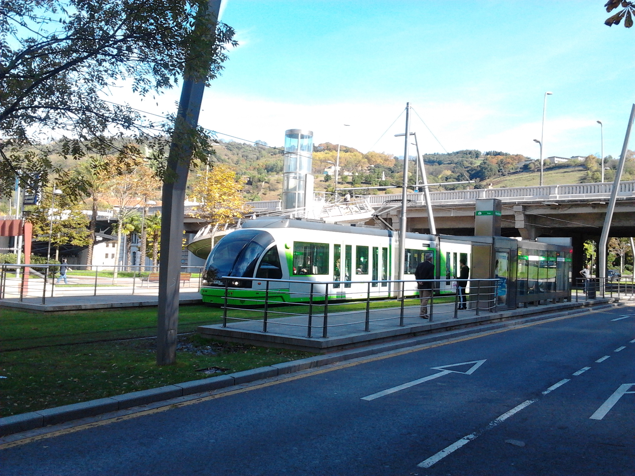 A train waiting on the Abandoibarra station of Euskotran in Bilbao